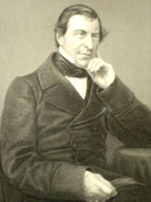 stipple engraving, portrait of Frederic Thesiger, 1st Baron Chelmsford